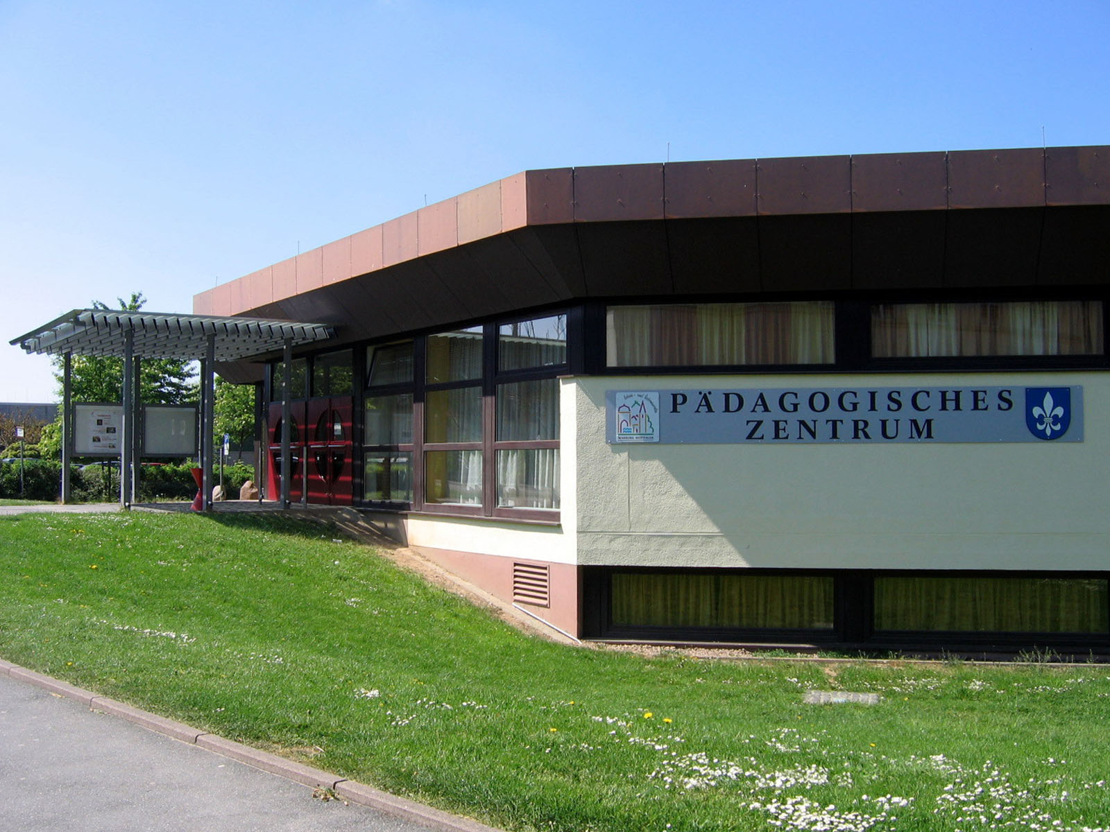 The Pedagogic Center in Warburg.